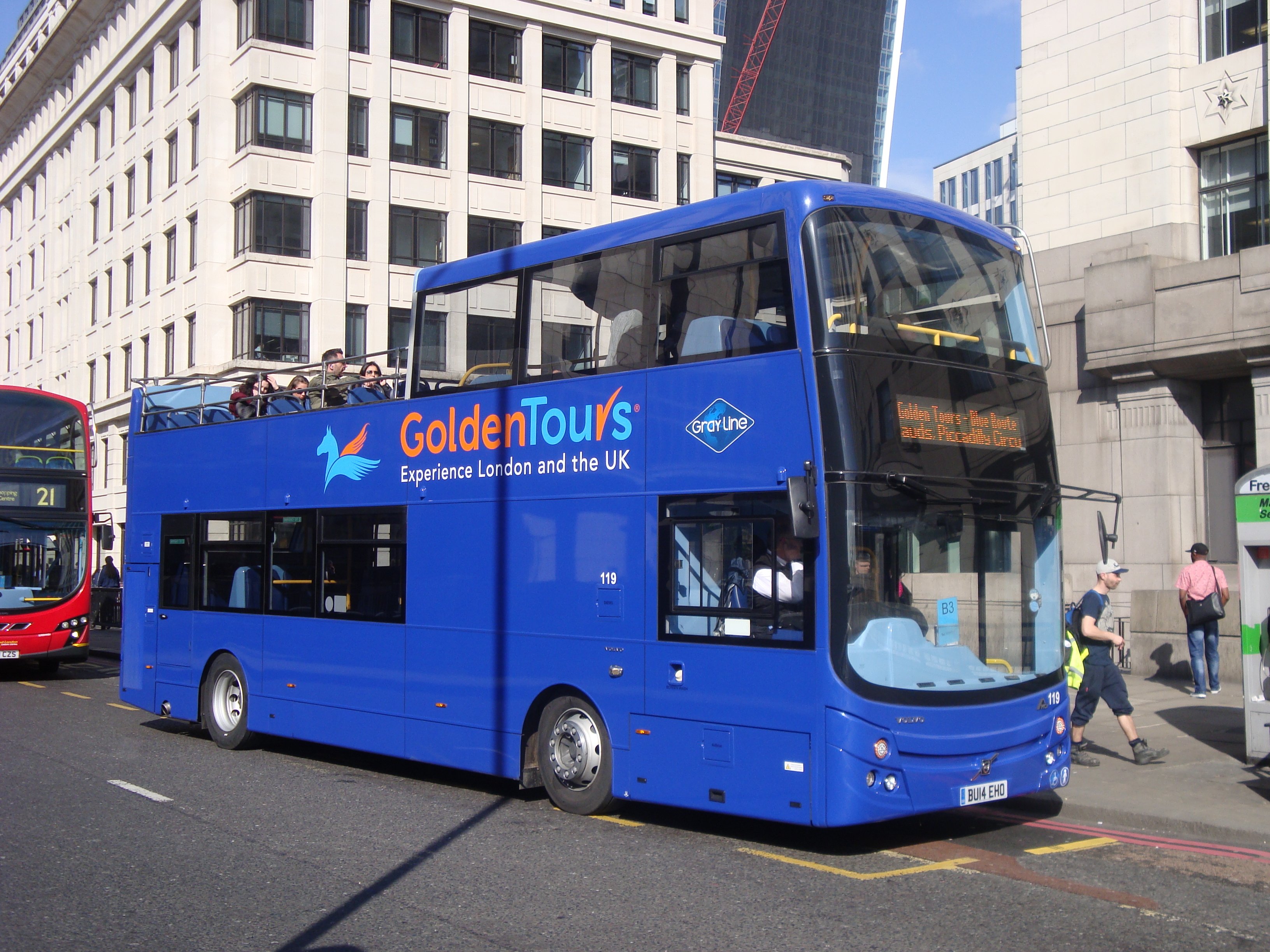 Golden Tours 119, an MCV DD103 bus.